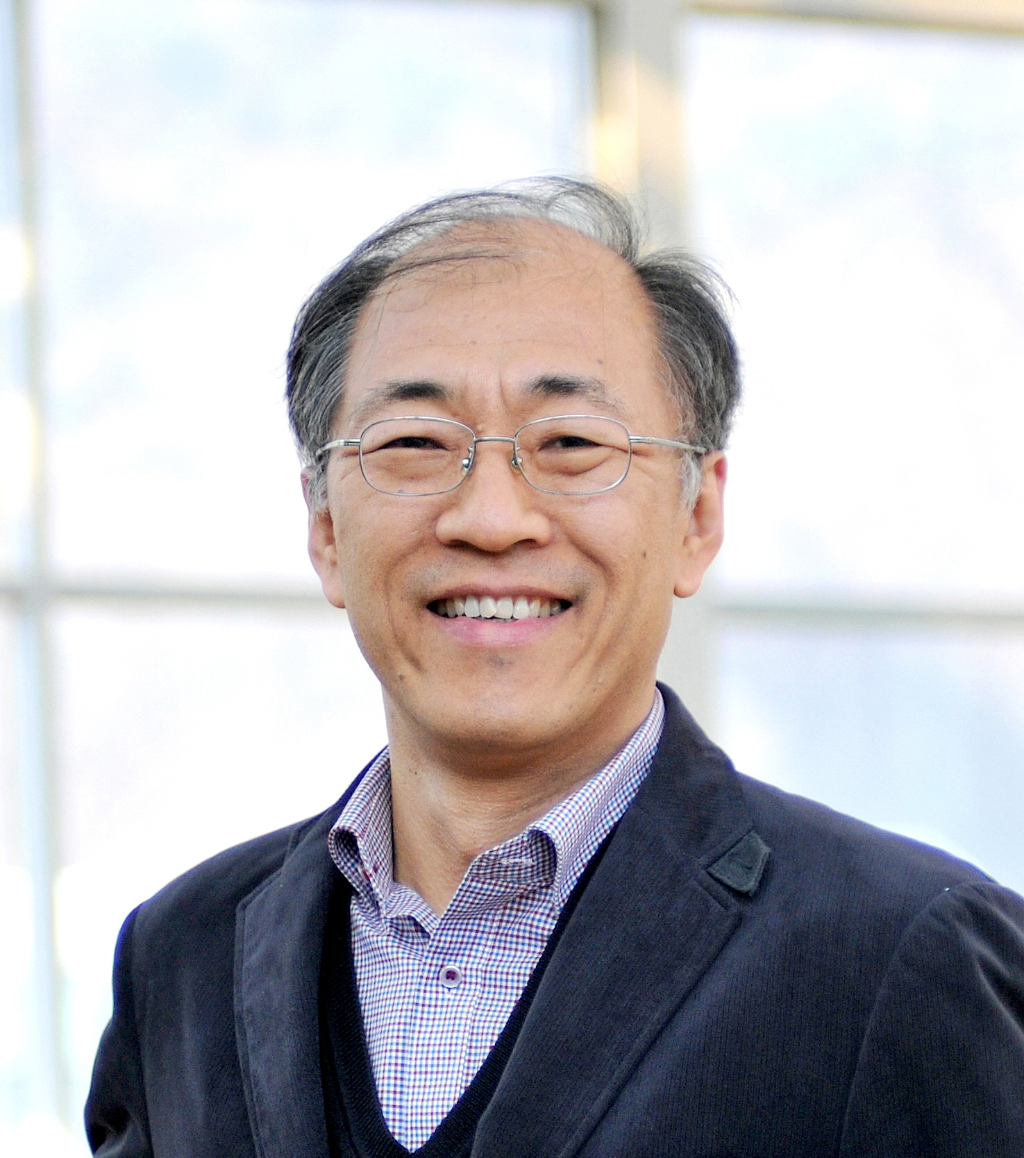 Minsuk Lee's photo